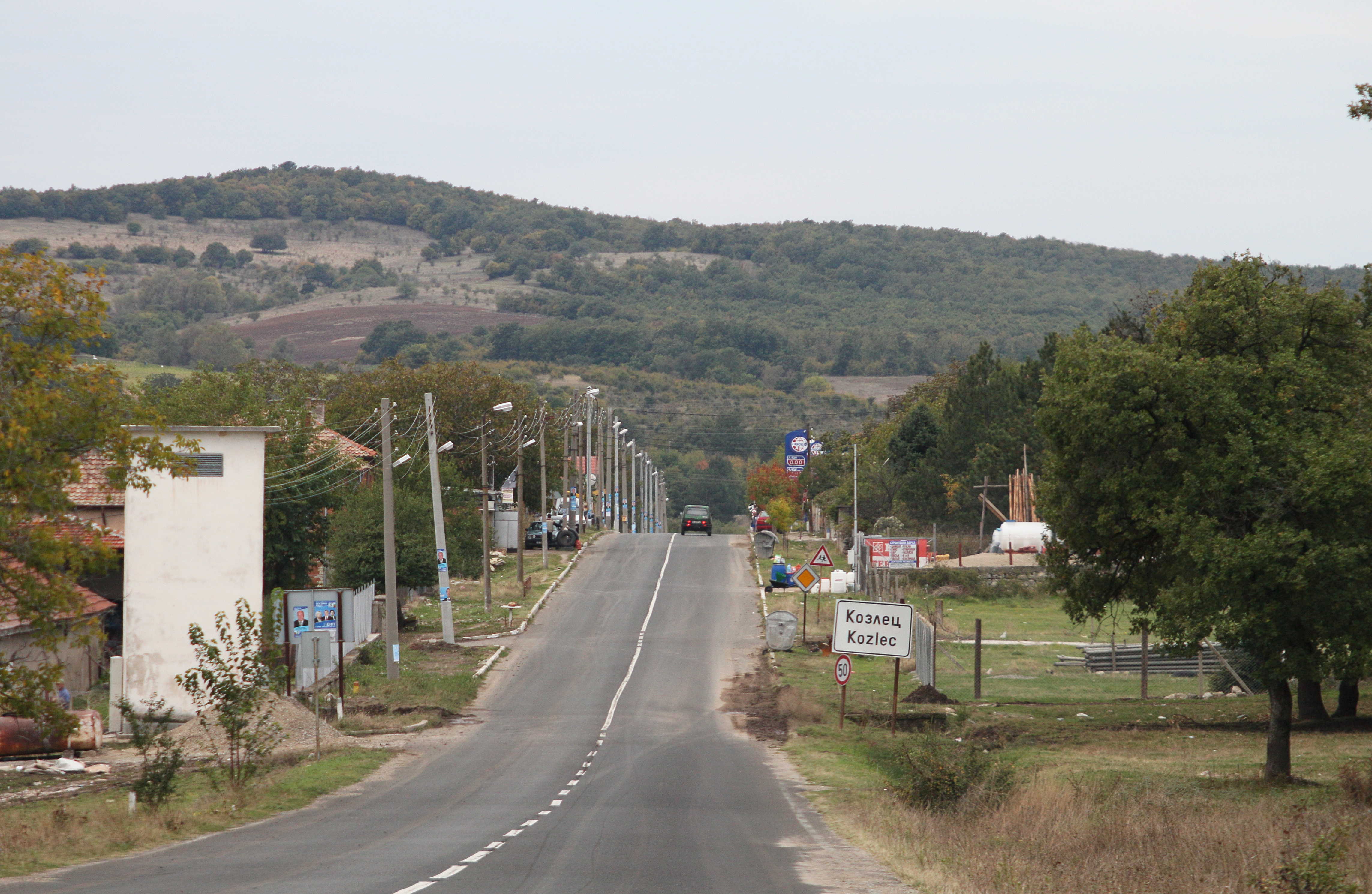 Kozlec, Haskovo District, Bulgaria